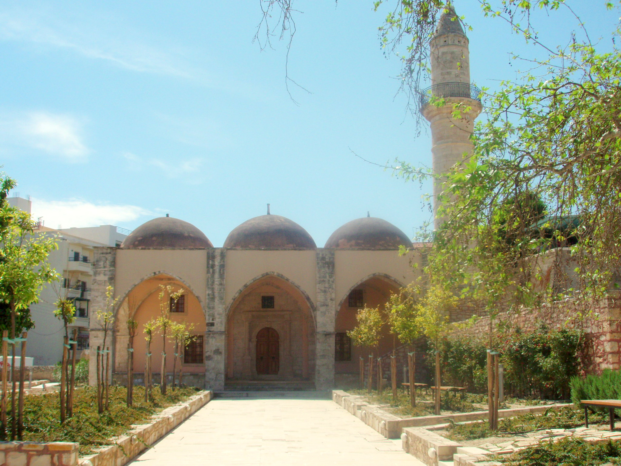 The Veli Pasha mosque (or Mastaba mosque from the quarter it is located) in Rethymno. It is thought that it was built on top of the Venetian St Onuphrius church, and also housed a madrasah. It features nine domes and the oldest surviving minaret in Rethymno (built in 1789). Today it houses the Rethymno branch of the Goulandris Museum of Natural History.